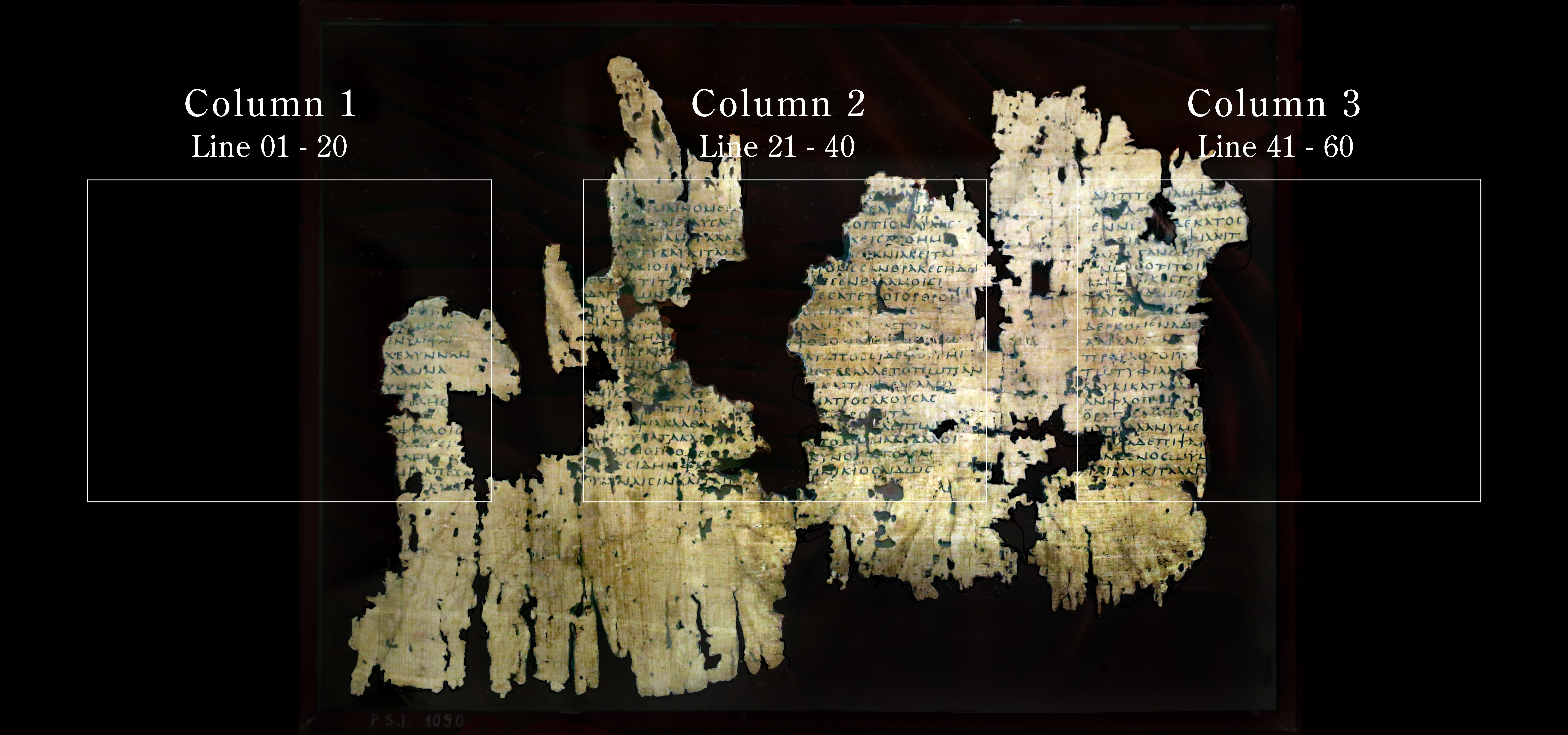 Papyrus Oxyrhynchus PSI 1090 columns image.